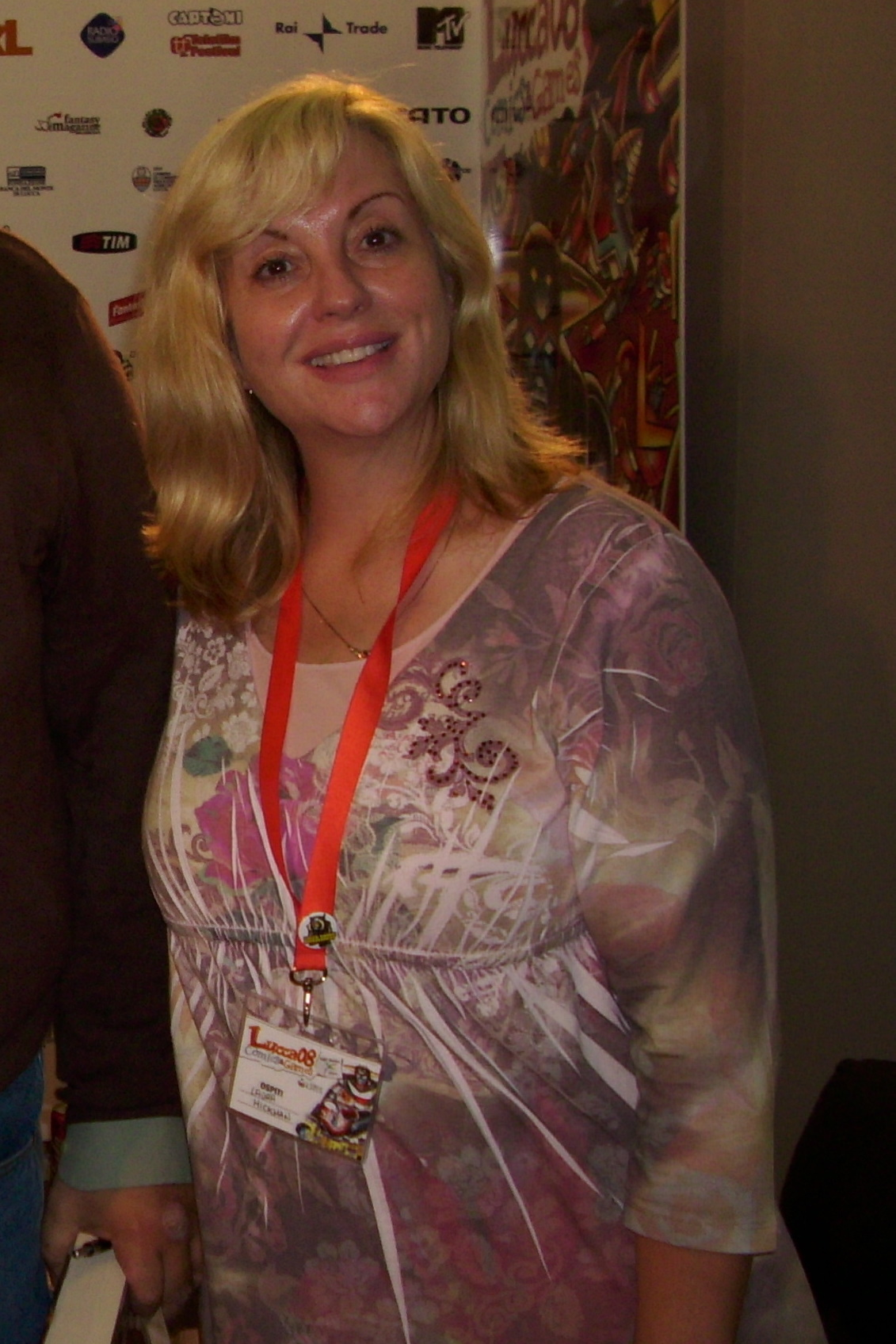 Fantasy writer Laura Hickman, Tracy Hickman's wife, at Lucca Comics and Games 2008